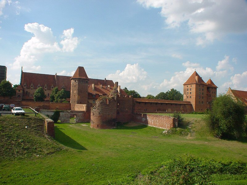 Teutonic Knights Castle Marienburg in Malbork, Poland